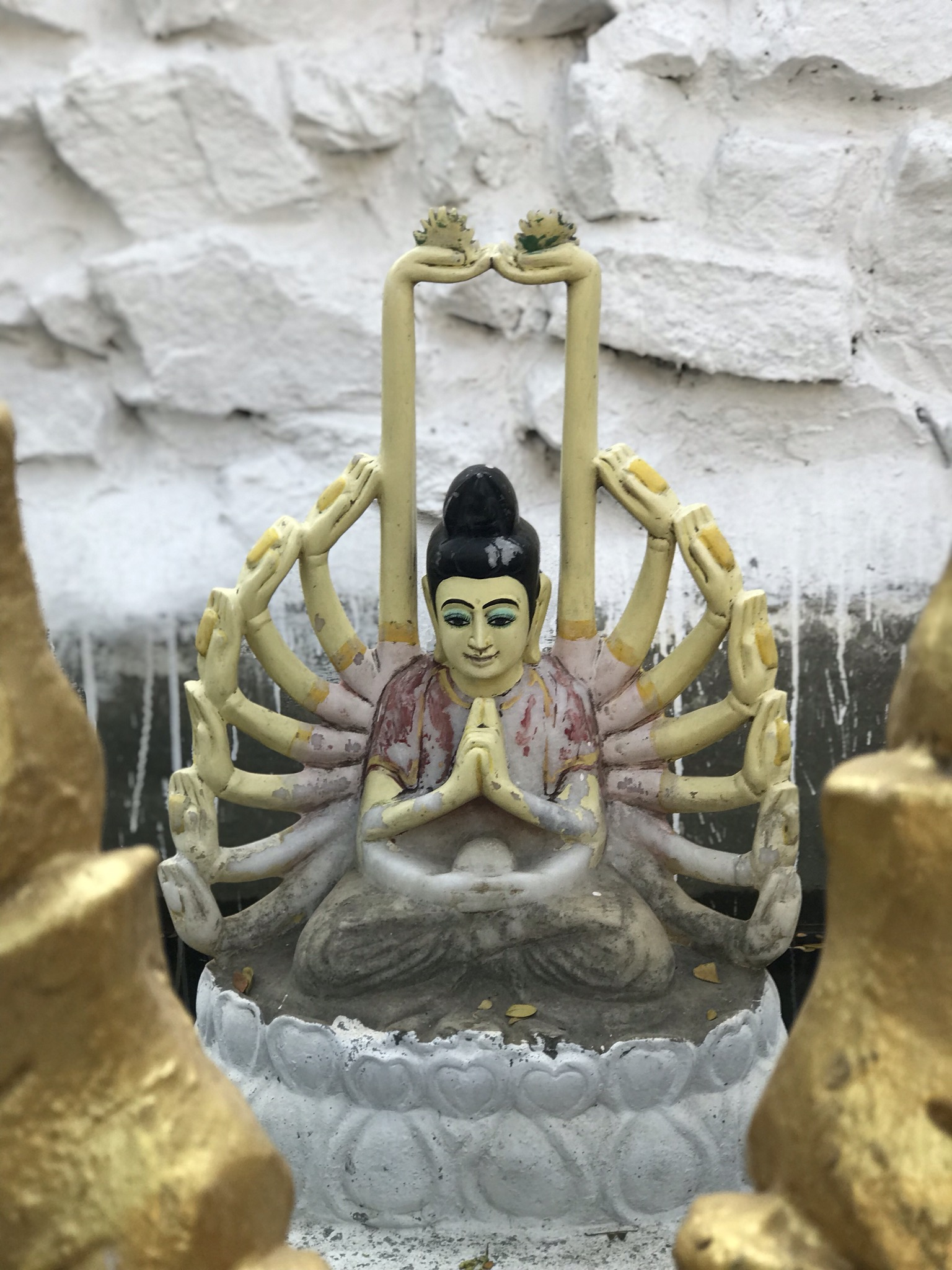 Guanyin is the Buddhist bodhisattva associated with compassion and venerated chiefly by followers of Mahayana Buddhist schools as practiced in the sinosphere.